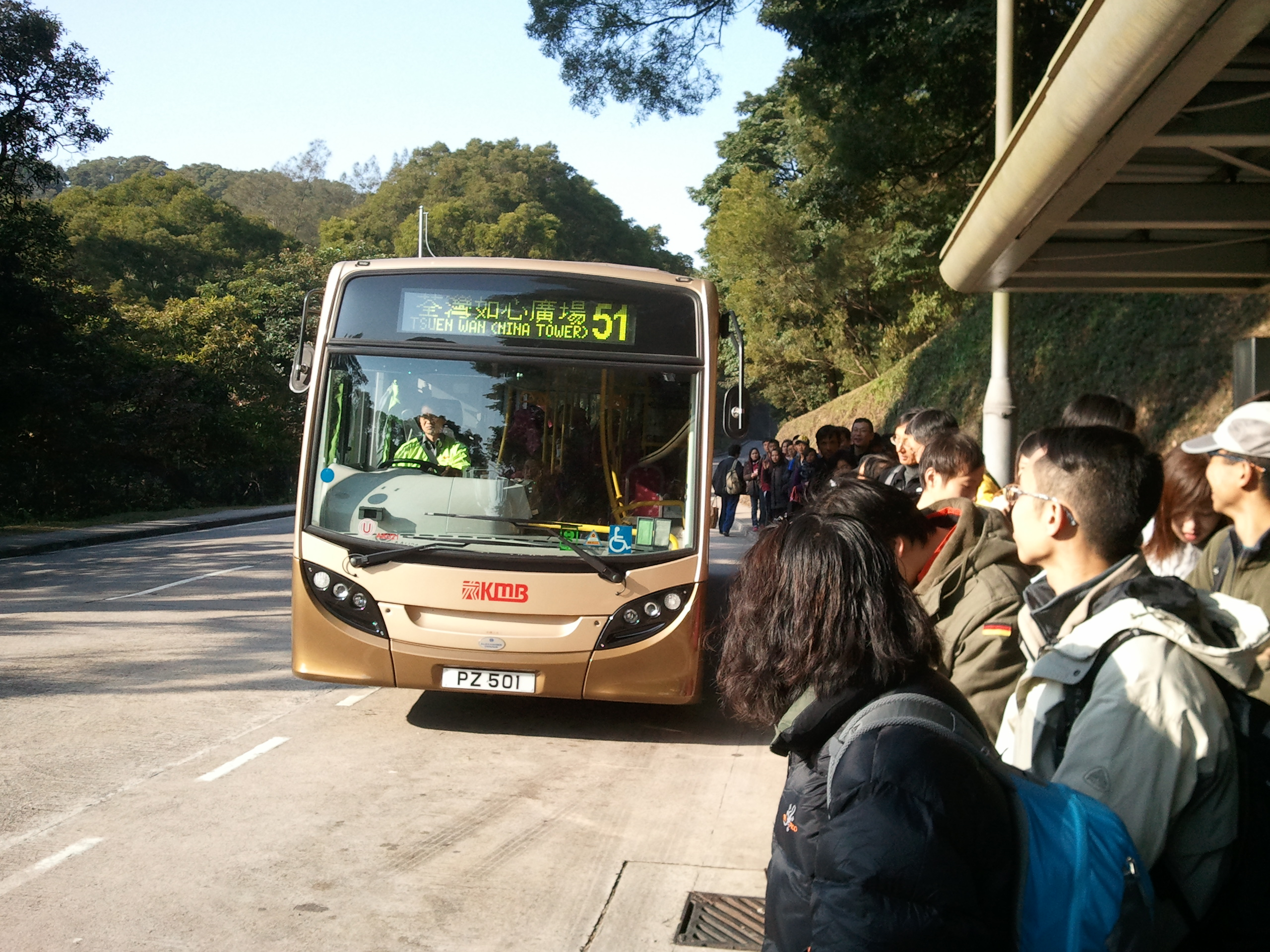 Enviro200 on Kowloon Motor Bus Route 51